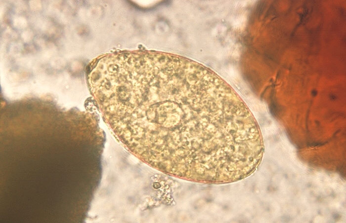 Unstained Echinostoma egg from faeces preserved in formalin.